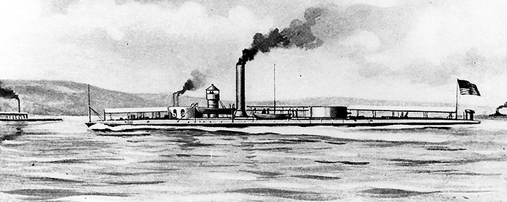 UNITED STATES MONITOR, CHICKASAW Removed caption read: Photo # NH 51486 USS Chickasaw